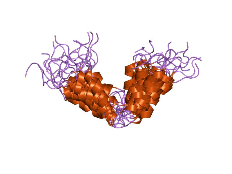 Cartoon representation of the molecular structure of protein registered with 1hn3 code.